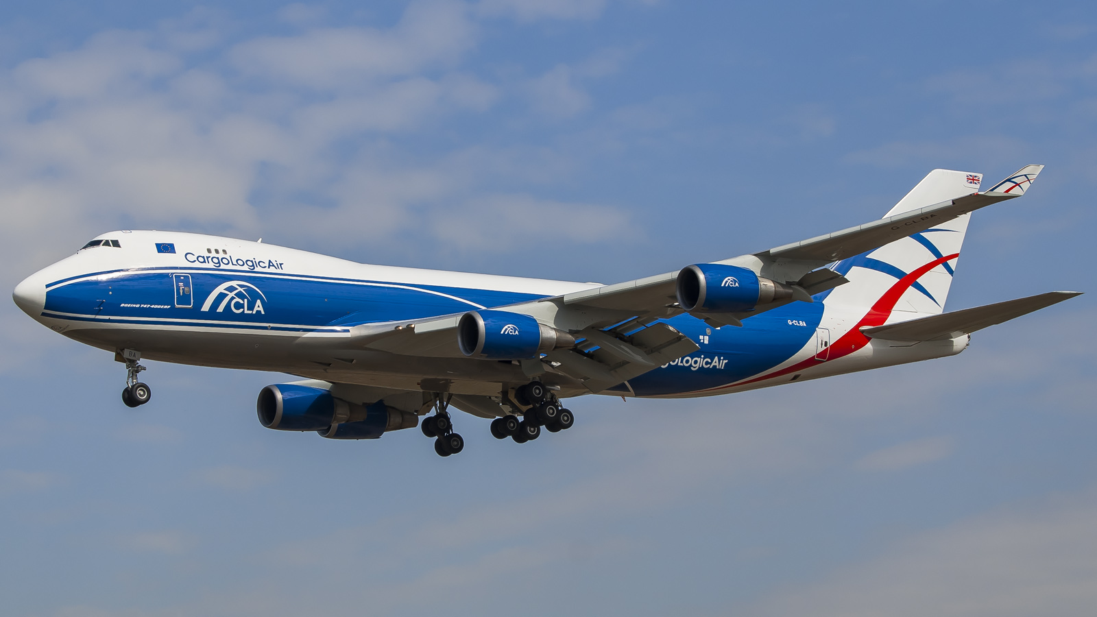 G-CLBA Boeing 747-400ERF CargoLogicAir SVO | UUEE